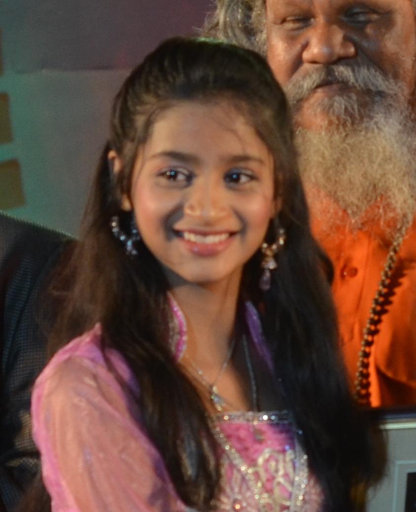 Bhumika Das being felicitated as best child actor for "Rumku Jhumana" during 25th Odisha State Film Award, Bhubaneswar, Odisha.